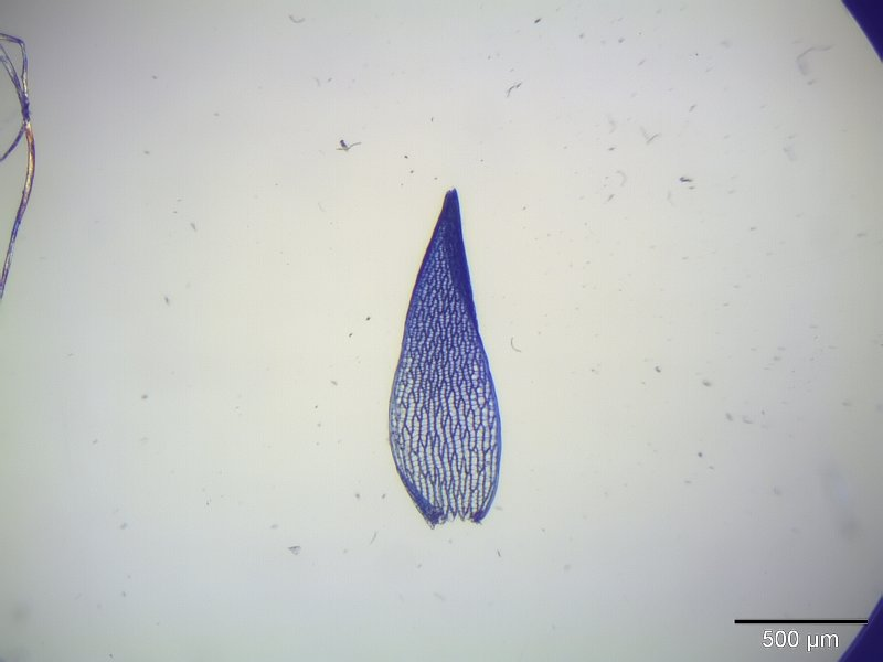 Sphagnum warnstorfii, Astblatt, 40x